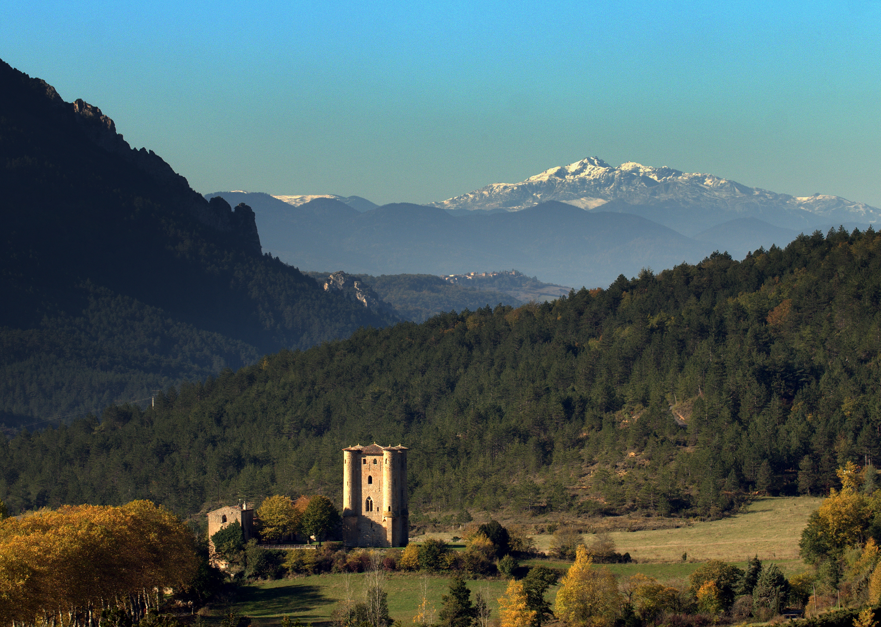 Arques